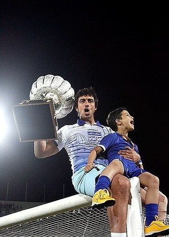 Mehdi Rahmati celebrationg IPL title